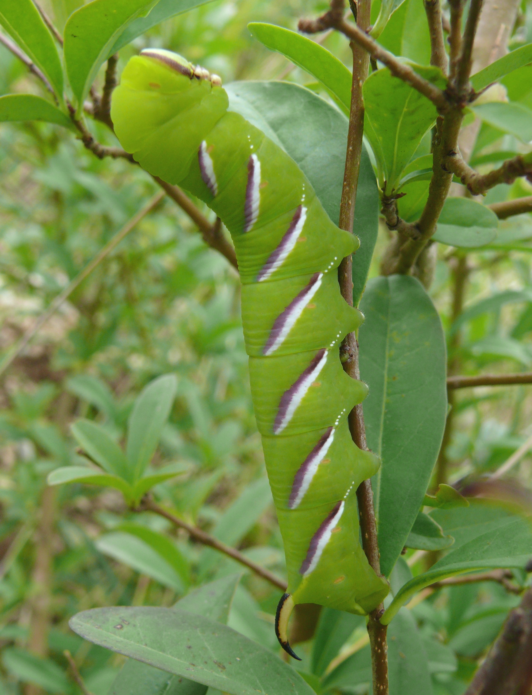 Sphinx ligustri